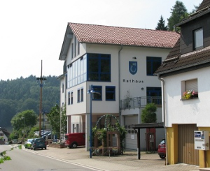 Town hall in Wilhelmsfeld